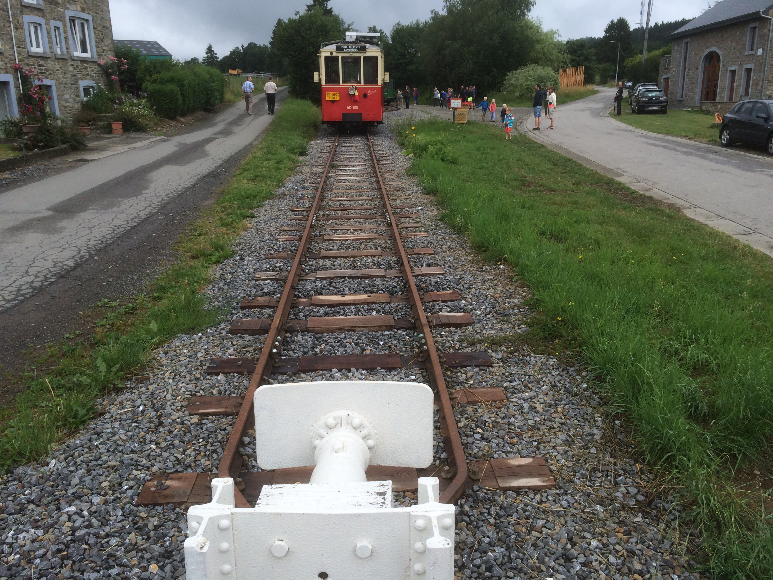 Arrival of the TTA AR.133 tramway in Lamormenil terminus